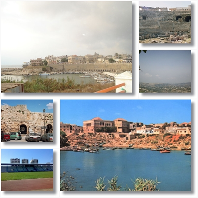 A collage of the coastal city of Jableh, Latakia Governorate, Syria. Top Left: General view of city and city's port, Source Top Right: Roman Amphitheater of Jableh, Ascription: LorisRomito Source Middle Right: Landscape of Jableh from surrounding hills, Source Bottom Right: View of city and a marina, Ascription: Ahmadac Source Bottom Left: Al-Baath Stadium (Jableh Stadium), Ascription: Firas1977 Source Middle Left: Entrance of antique Roman theater of Jableh, Ascription: LorisRomito Source Collection